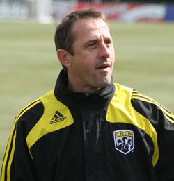 Robert Warzycha at the first game of the 2008 season for the Columbus Crew. The game took place at Columbus Crew Stadium, on March 29, 2008 vs Toronto FC. I shot this photograph using my Canon Digital Rebel XTi at 3:48PM EDT as the team exited the field after warmups.